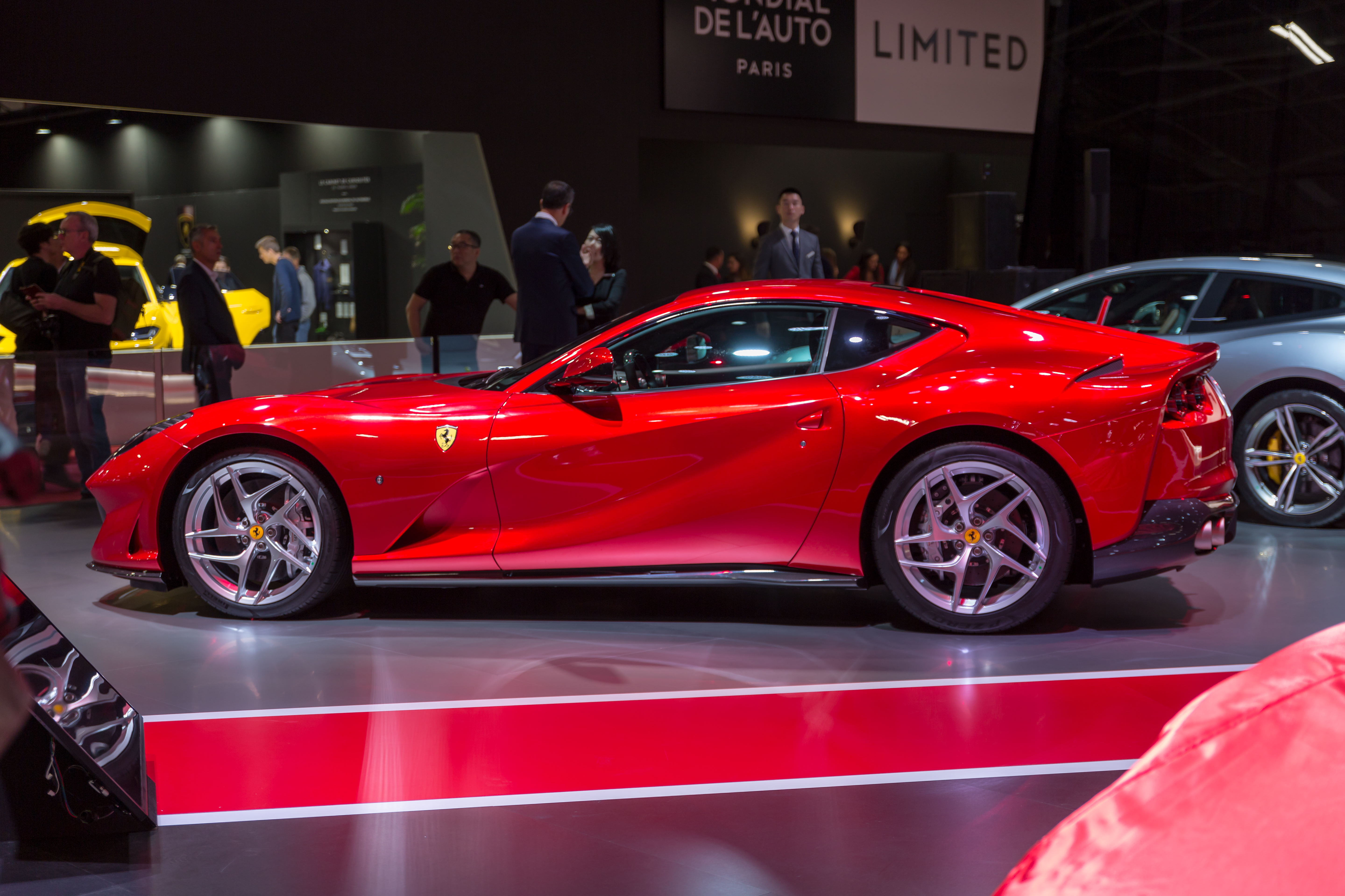 Mondial Paris Motor Show 2018